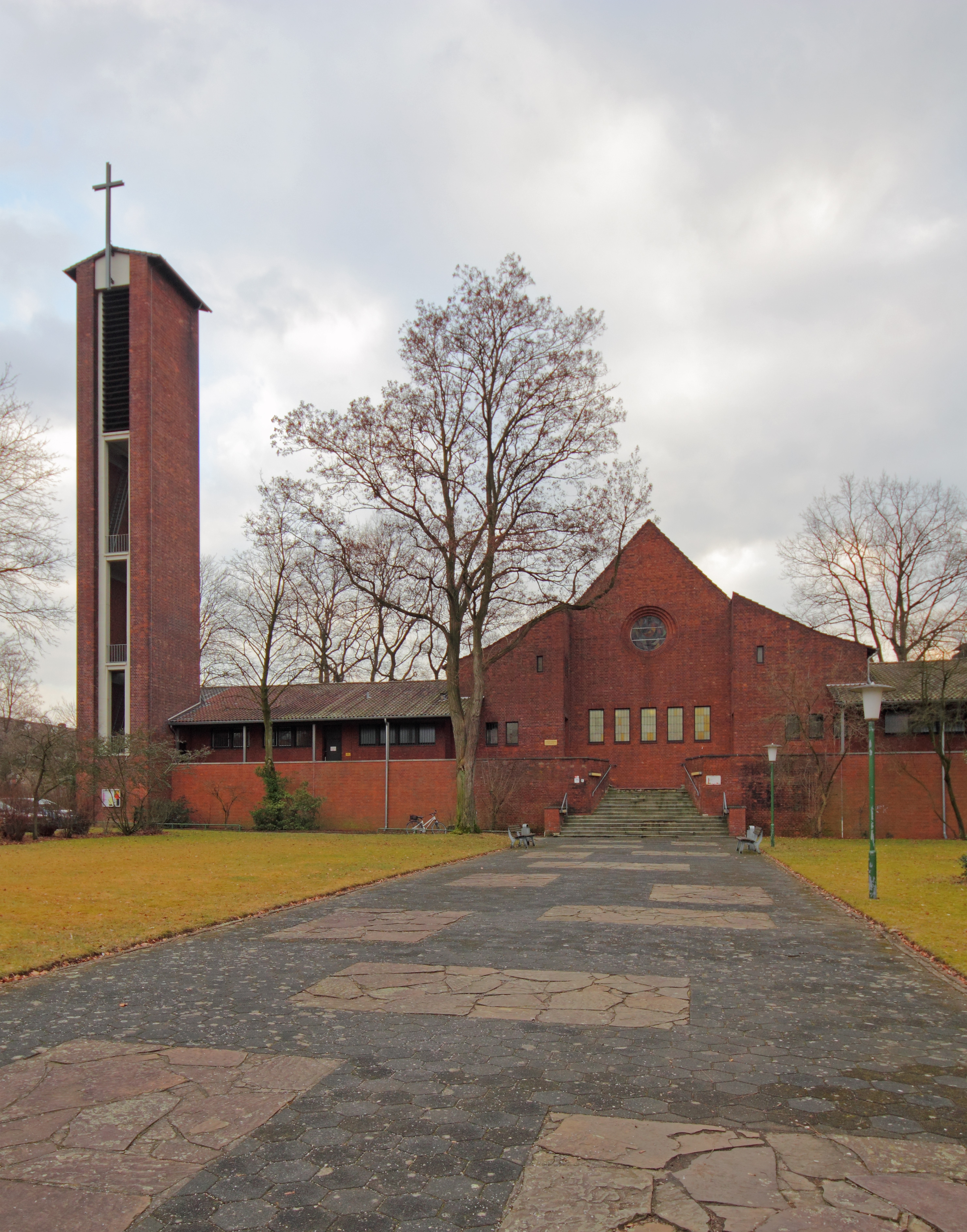 Evangelist St. John church in Leverkusen-Manfort